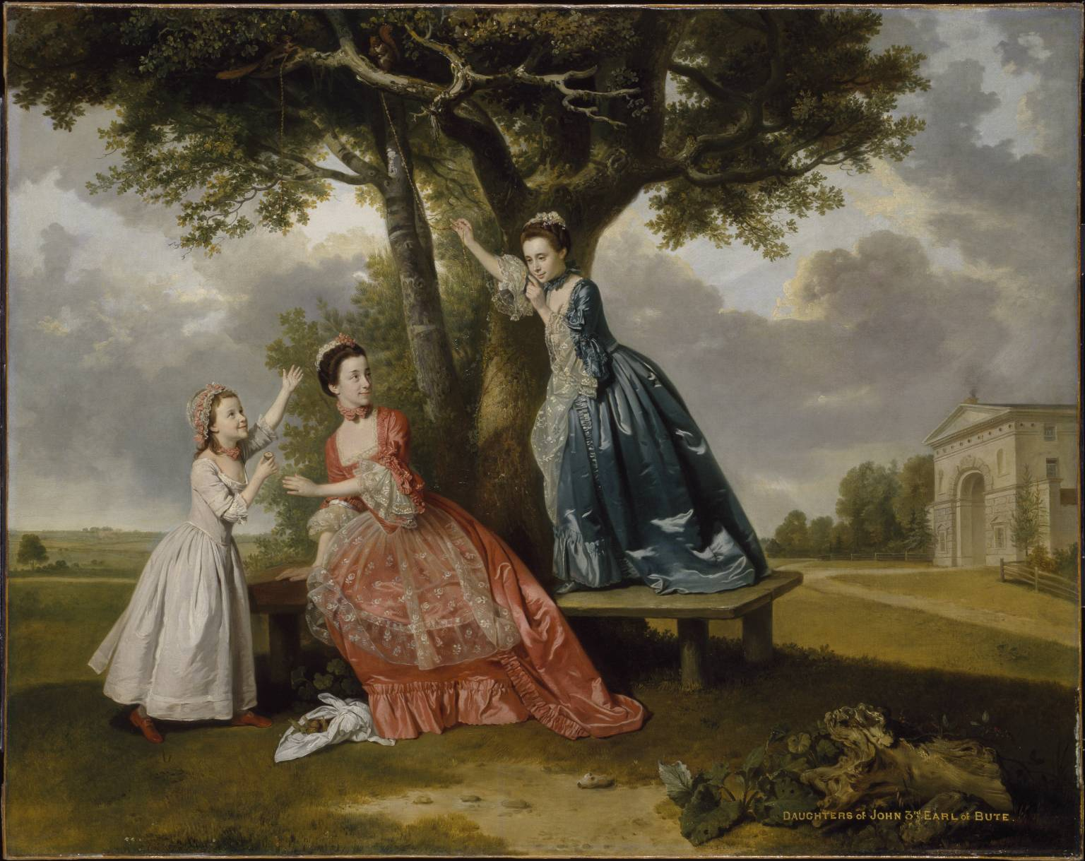 Three Daughters of John Stuart, 3rd Earl of Bute